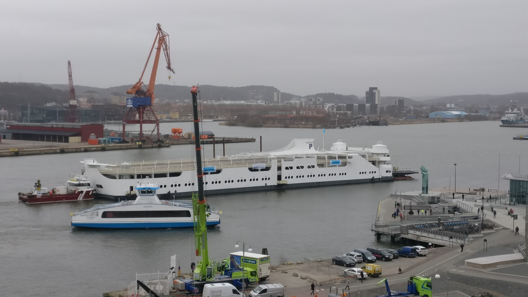 P-Arken is towed north east towards Lilla Bommen